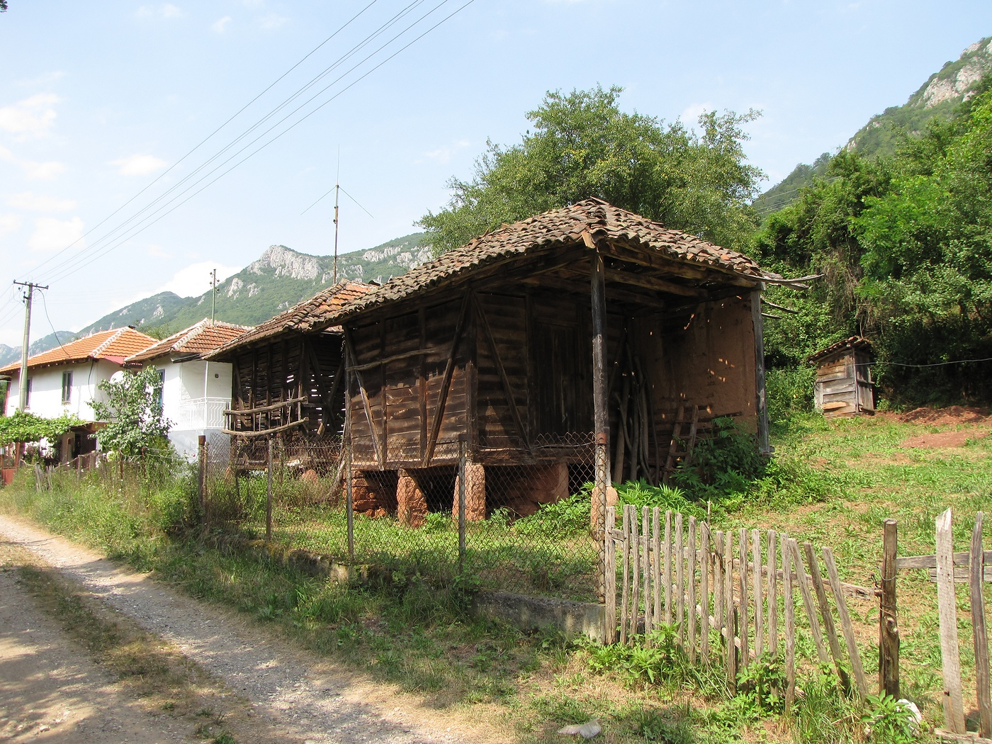 Old house in village of Petacinci